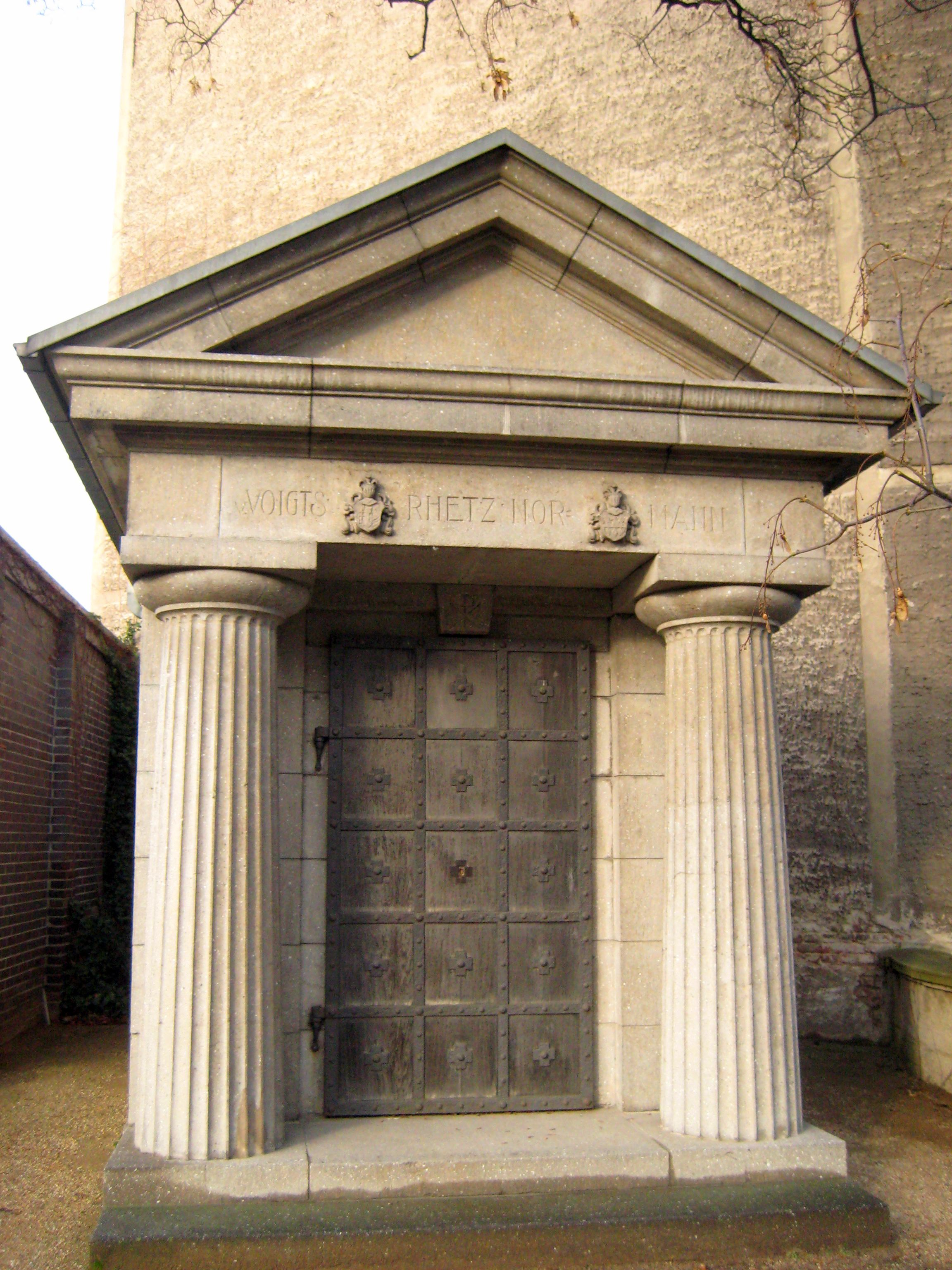 mausoleum of the von Voigts-Rhetz (around 1902) on Invalidenfriedhof cemetery in Berlin